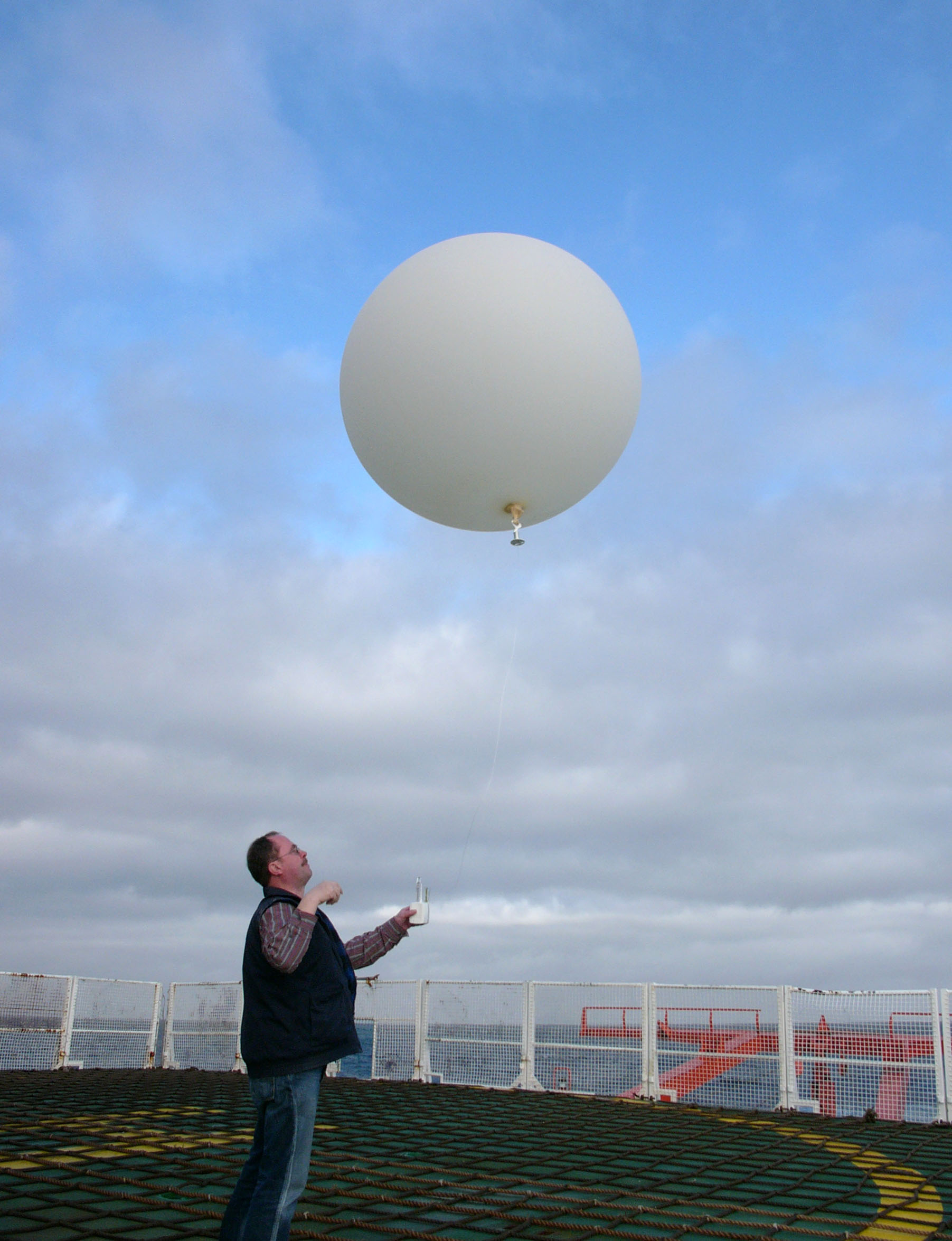 Release of a radiosonde on the helicopter deck of the research vessel Polarstern. A Radiosonde attached to a ballon filled with Helium is used to measure meteorologic parameters (temperature, wind, ozone) along a profile up to an altitude of 20 km.